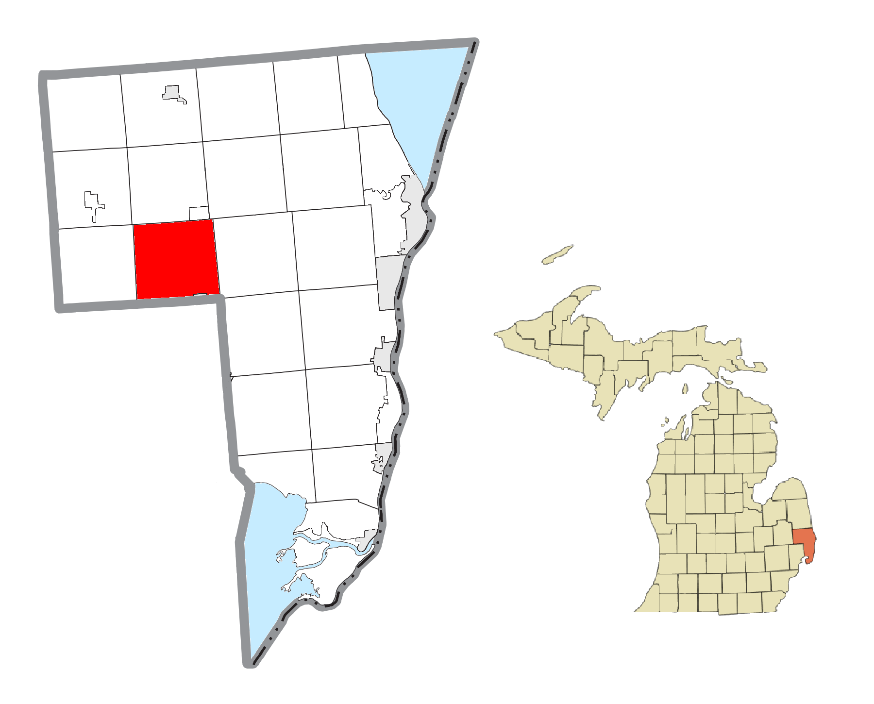 Riley Township (St. Clair), MI